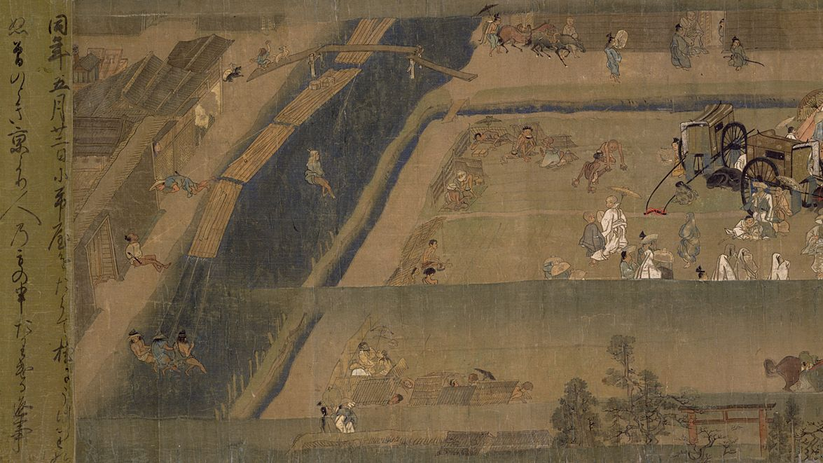 Illustrated Biography of the Priest Ippen： Volume 7 (絹本著色一遍上人絵伝, kenpon choshoku ippen shōnin eden). This is part of the handscroll located at the Tokyo National Museum in Tokyo. Color on silk. Size of the full scroll: 37.8 cm x 802.0 cm. The scroll has been designated as National Treasure of Japan in the category paintings.